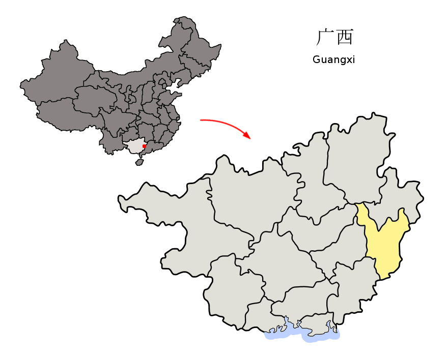 Location of Wuzhou Prefecture (yellow) within Guangxi Autonomous Region of China Map drawn in november 2007 using various sources, mainly : Guangxi Autonomous Region administrative regions GIS data: 1:1M, County level, 1990 Guangxi Counties map from